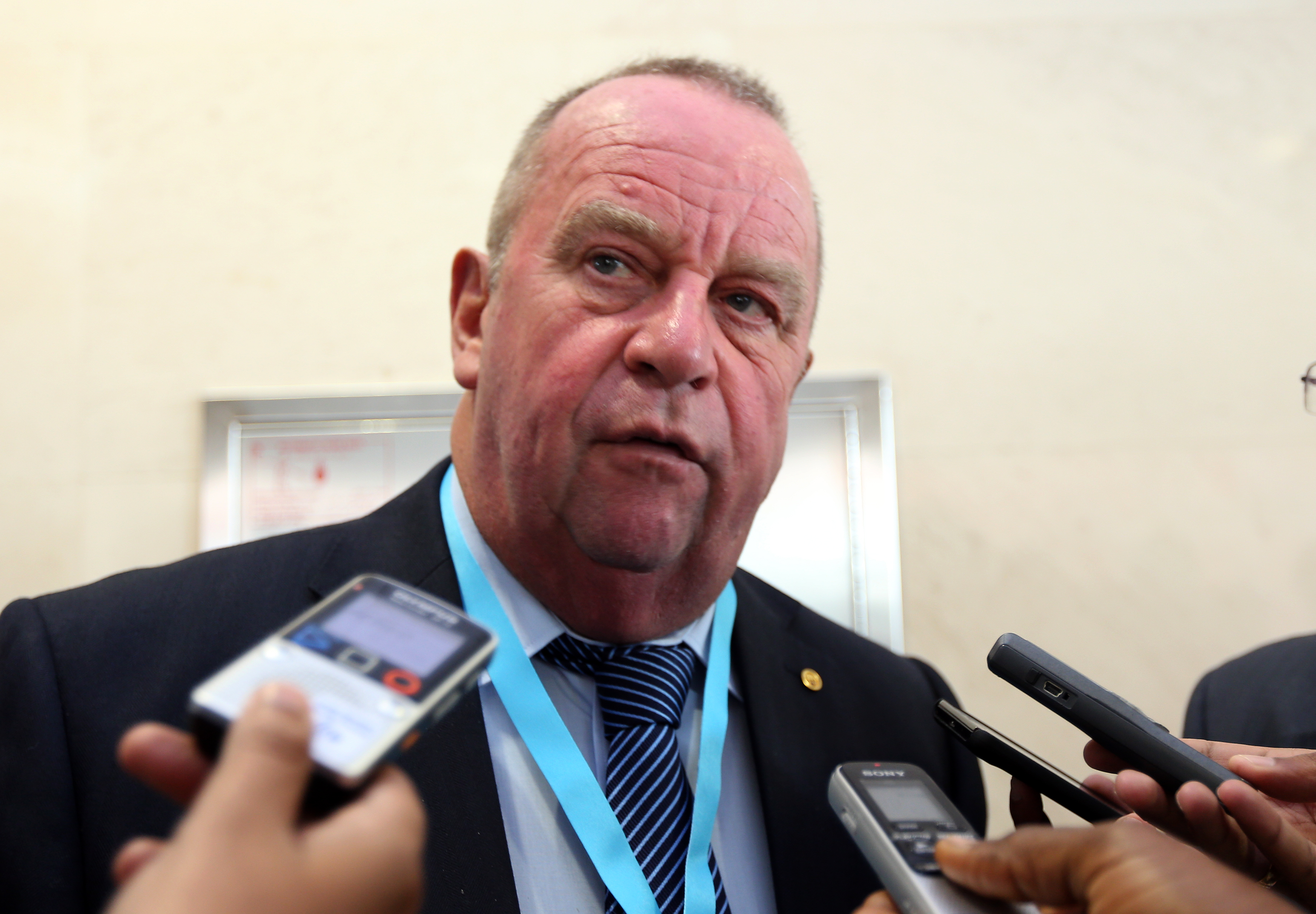 FIFA Medical Committee Chairman Dr Michel D’Hooghe during a visit to Aspetar in Doha. Picture by Vinod Divakaran